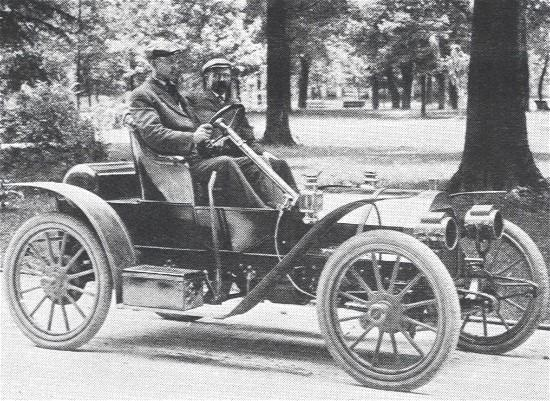 Perry Okey driving a Okey L-7 in 1905. This was the last model of this small Ohio make. It had a 22 bhp 3 cylinder, 2-stroke engine, planetary transmission, and shaft drive. It came as a runabout only, priced at $ 1400. Production started in 1905, and ended in 1907.